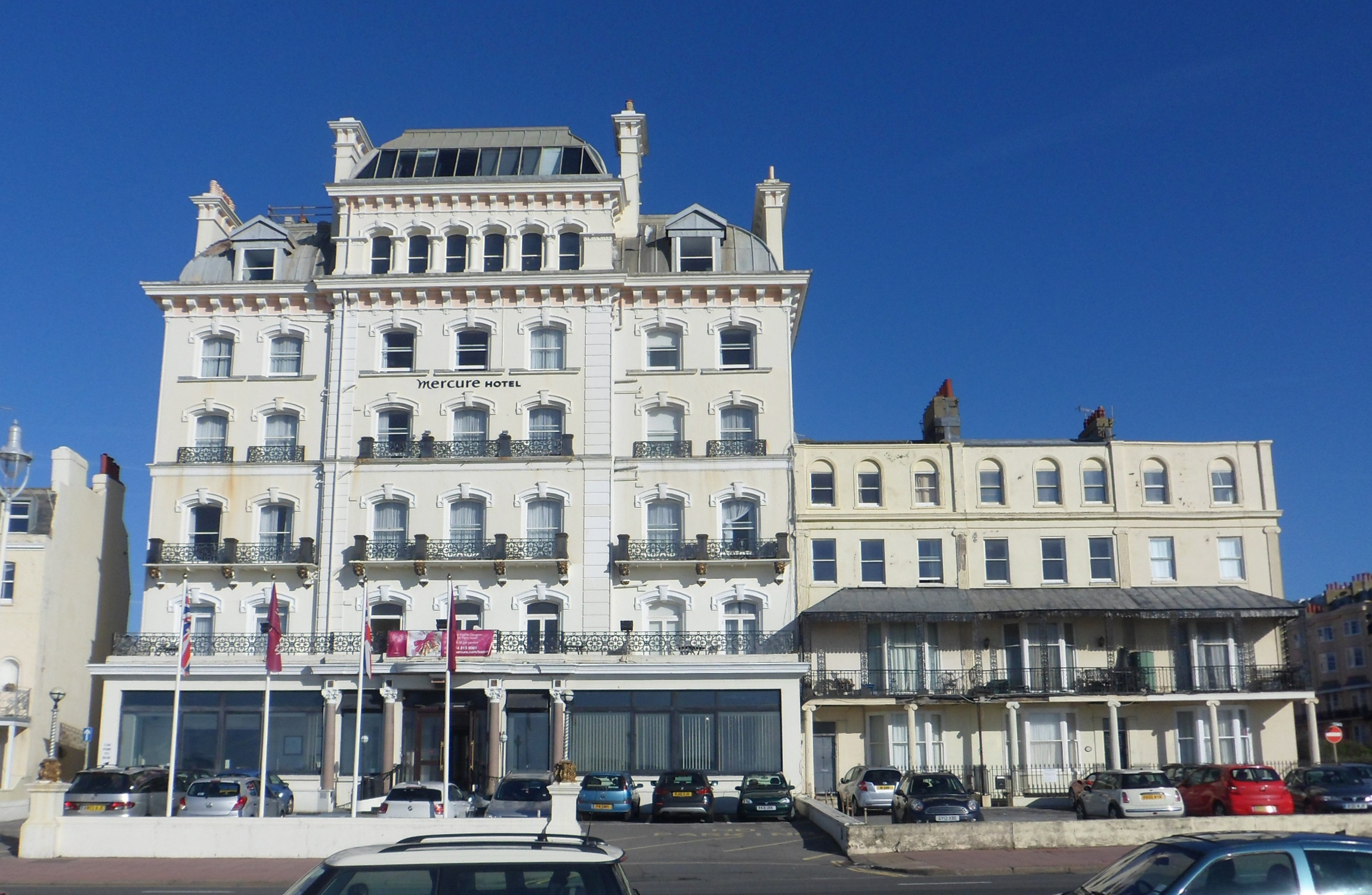 Norfolk Hotel, 149 Kings Road, Brighton, City of Brighton and Hove, England. At the time of the photo, it is owned by Mercure and is branded Mercure Brighton Seafront Hotel. Listed at Grade II by English Heritage (NHLE Code 1381642)